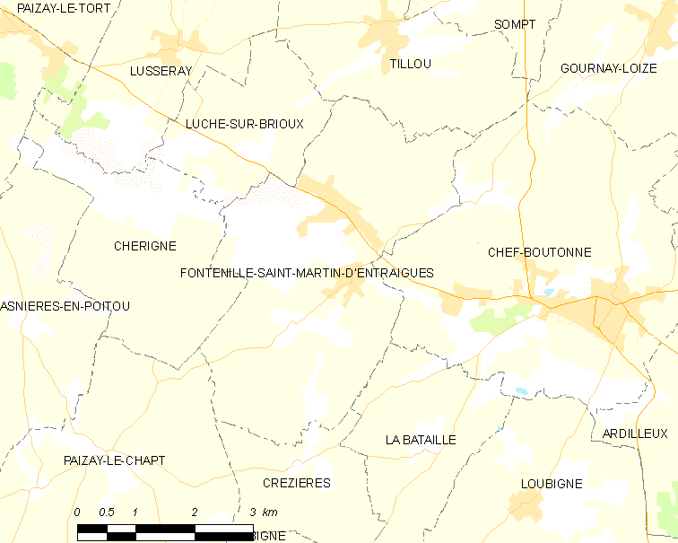 Map of French municipality Fontenille-Saint-Martin-d'Entraigues